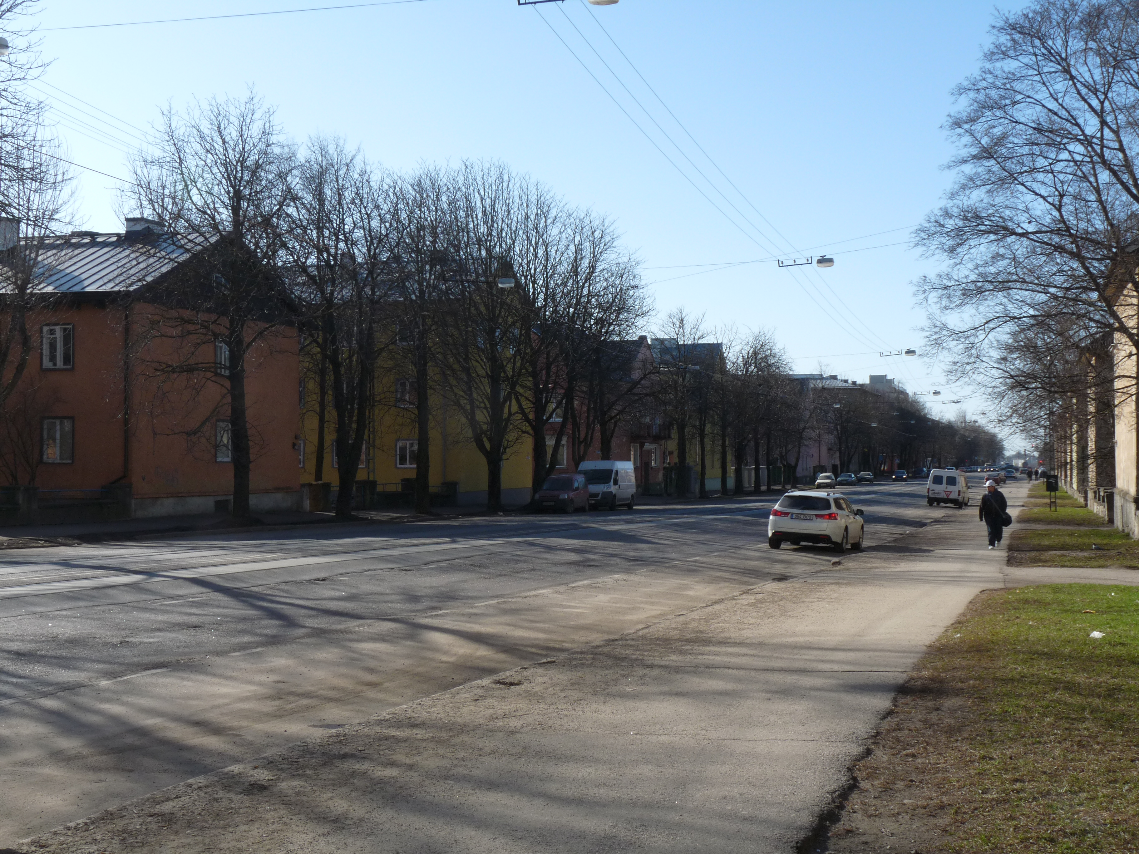 Majaka street in Tallinn